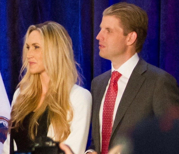 After securing his place in the top three in the Republican caucuses, presidential candidate Donald Trump spoke briefly to a crowd a watch party, Feb 2 in West Des Moines. Trump said, "I love you people, I love you people, thank you very much."